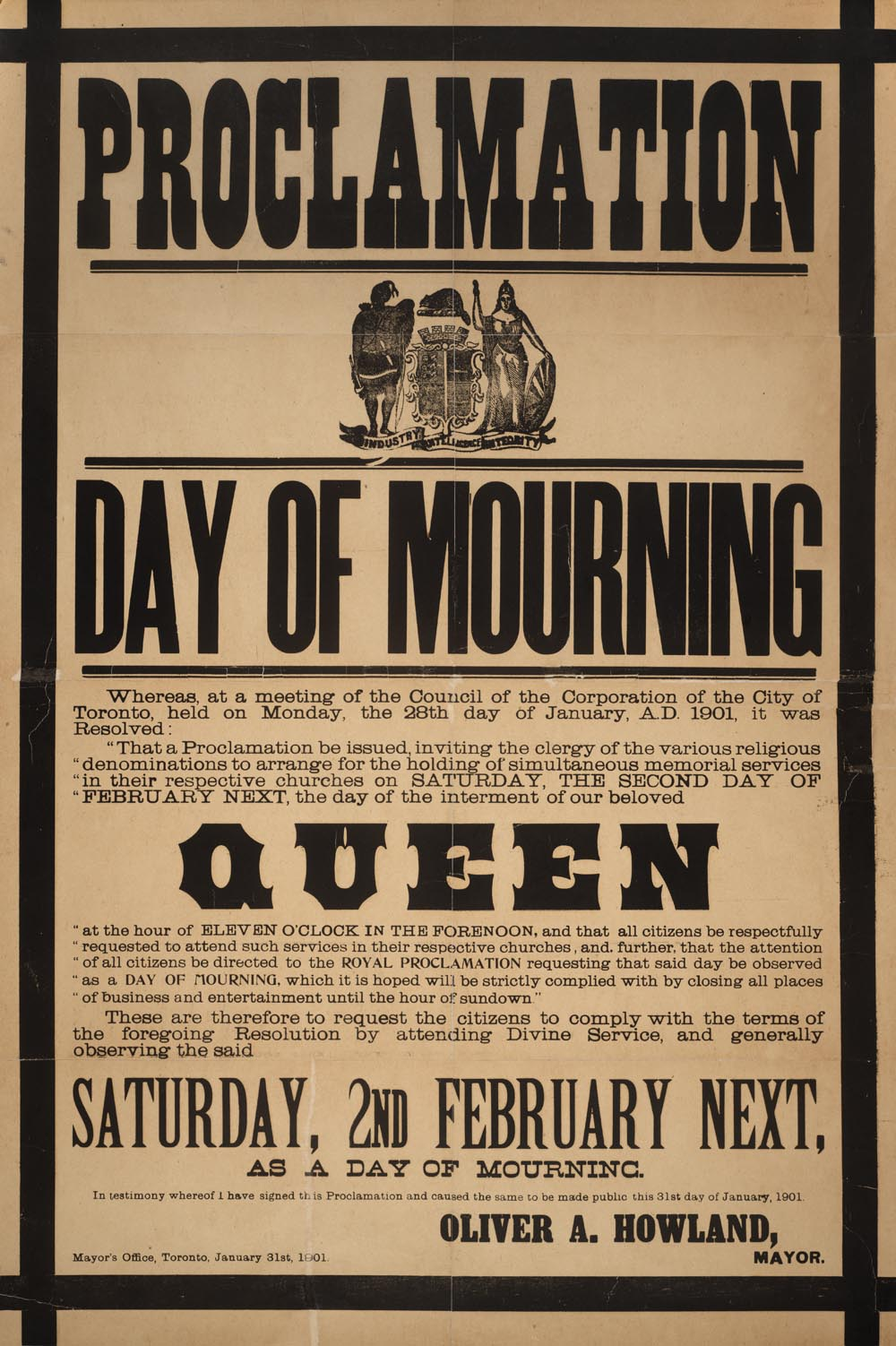 Poster proclaiming February 2, 1901, as a Day of Mourning in Toronto, Ontario, Canada as a Day of Mourning for Queen Victoria. Proclaimed by Howland, Oliver A., Mayor.